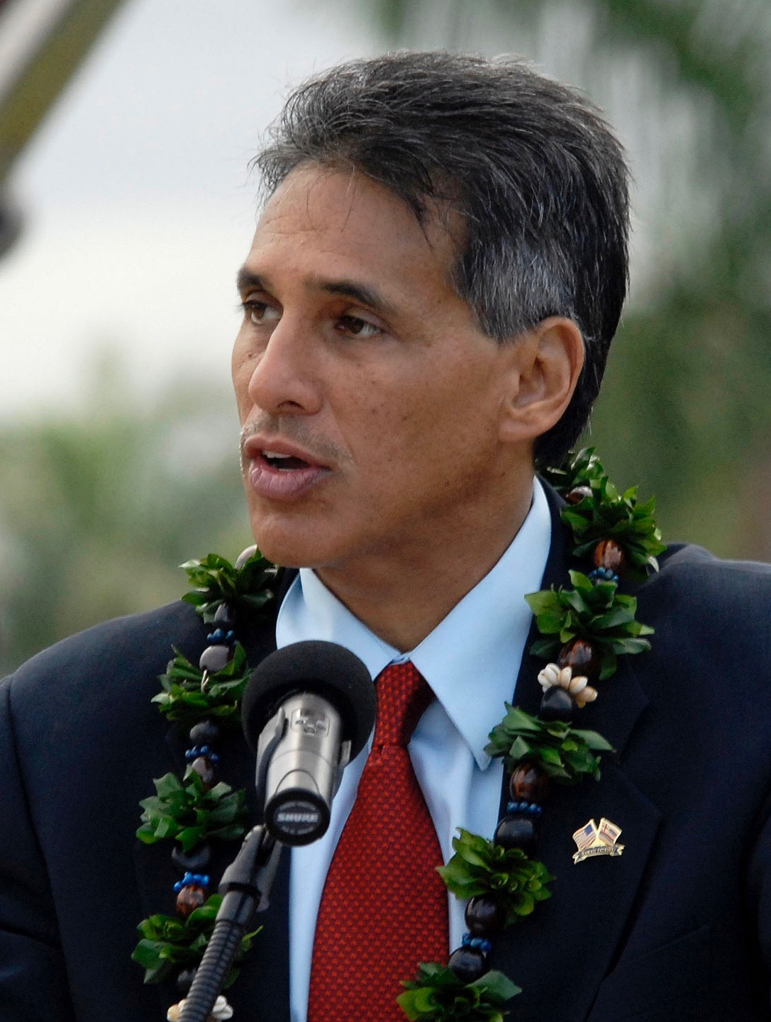 James Aiona, Lt. Governor of Hawaii,speaks to survivors, Hickam airmen, friends and family members of the victims of the Dec. 7, 1941 attacks on Hickam Air Field, during a remembrance ceremony Dec. 7 at Hickam Air Force Base, Hawaii. The ceremony marked the 68th anniversary of the Japanese attack on Pearl Harbor and Hickam Air Field, and paid tribute the Airmen who were attacked and died on that tragic day.